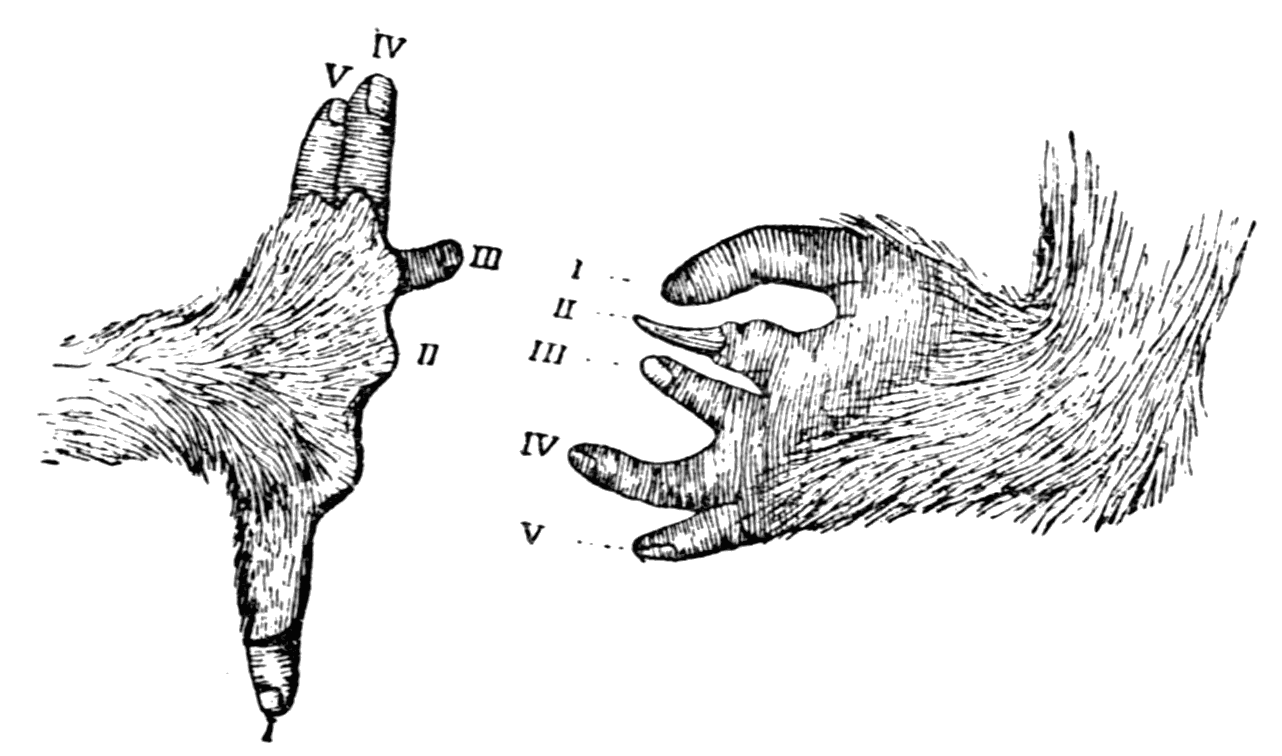 Fig. 7. Hand and Foot of Perodicticus calabarensis.